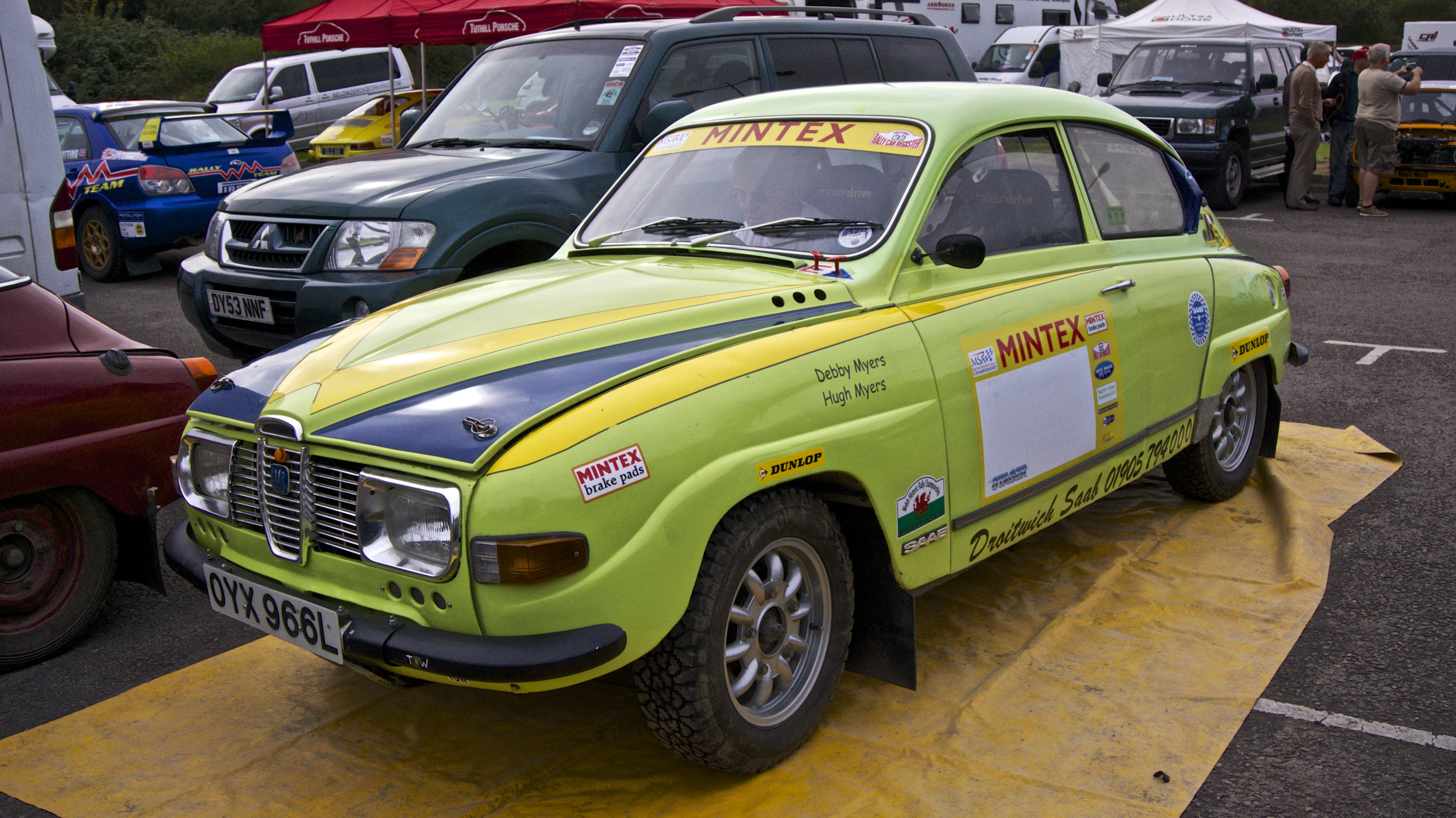 The service area for the 2013 Sunseeker Rally is at the Creekmoor Park and Ride - just a short distance from my home - well it would be rude not to visit wouldn't it? You can wander the service area, chat to the crews and drivers and peer at the cars - all for free. I hope to make at least one stage tomorrow - Its always fun watching rally cars being slung around on the dirt at high speed! This old Saab in the classics class is one of my favourites, along with the Mini's and Escorts.